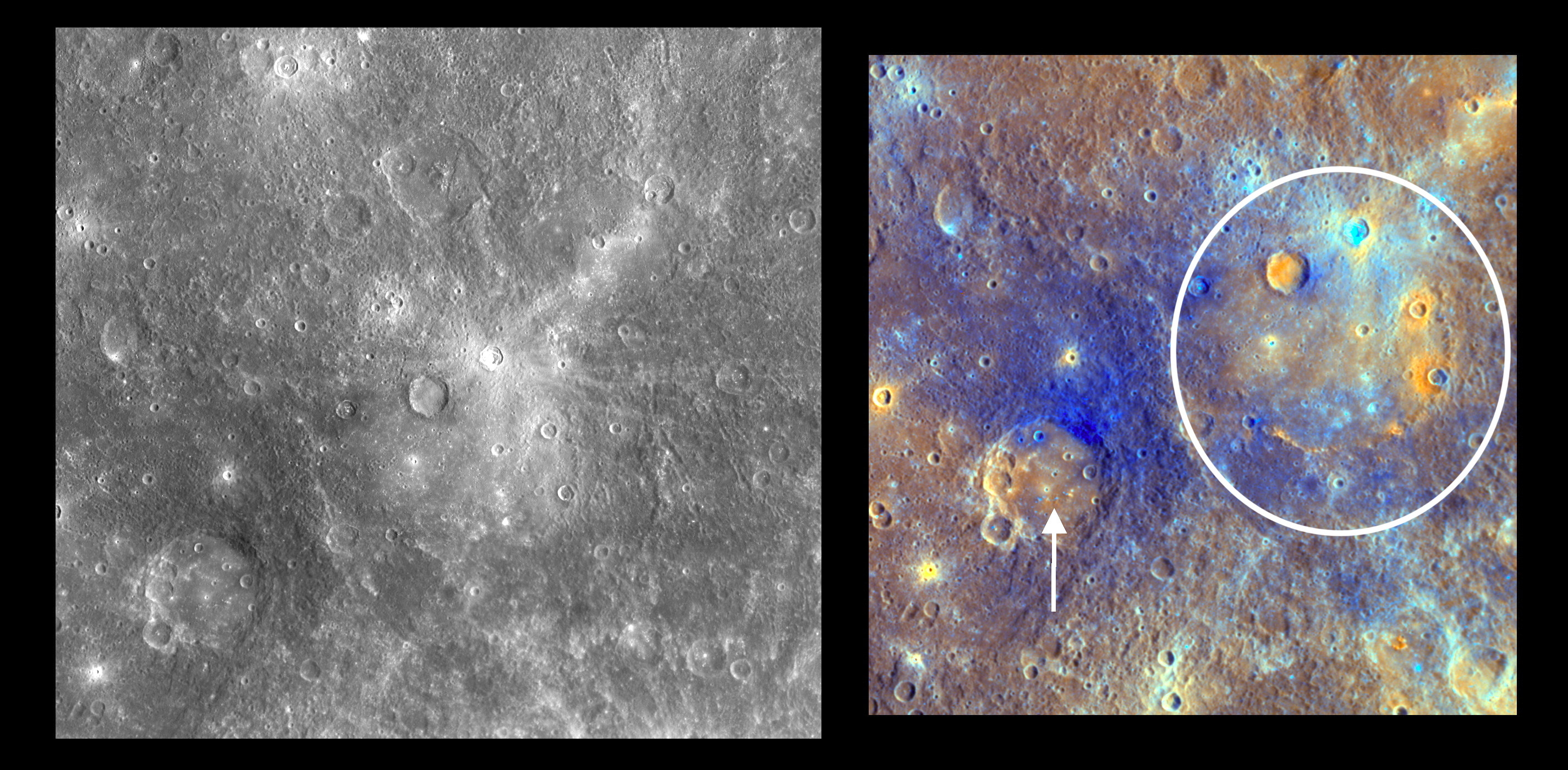 Instrument: Narrow Angle Camera (NAC) and Wide Angle Camera (WAC) of the Mercury Dual Imaging System (MDIS) Scale: Dominici is 20 kilometers (12.4 miles) in diameter; Homer is 314 kilometers (195 miles) in diameter Projection: The image on the left is a portion of the global Mercury mosaic. The image on the right comes from a high-resolution WAC sequence taken during MESSENGER’s second Mercury flyby. Both are at a resolution of 500 meters/pixel (0.3 miles/pixel). Of Interest: The small rayed crater to the immediate right of the center of the left image is Dominici, named in March 2010 for Maltese sculptor and painter Suor Maria de Dominici (1645-1703). Dominici’s bright rays indicate that it is relatively young, and the young rays appear light blue in enhanced-color images, as seen in the image to the right. Dominici also has bright material on its floor and is surrounded by crater ejecta and material that appears orange in enhanced color. These color differences, as in nearby Titian crater (white arrow), suggest that the impact crater excavated material from beneath Mercury’s surface that differs in composition from the surrounding surface. Dominici lies within a much larger impact structure, the Homer basin, indicated by the white circle in the right-hand image. Homer received its name after the Mariner 10 mission, which imaged Homer under different lighting conditions that showed well the basin but not as clearly the bright rays of Dominici.